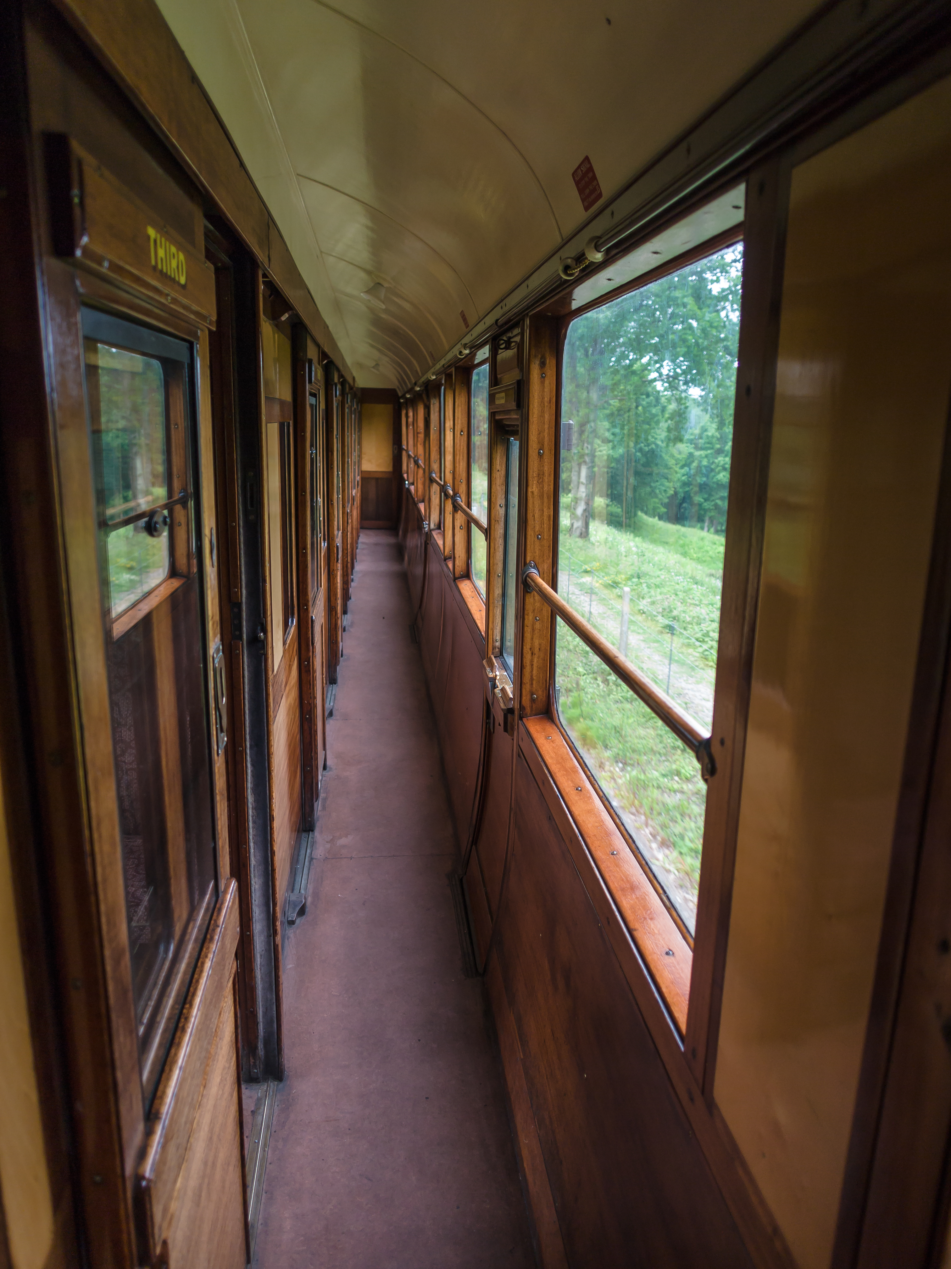 Bluebell Railway (during the 2013 Edwardian week-end)